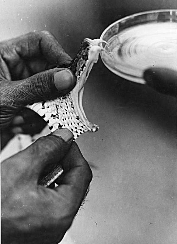 A Russell's viper is being "milked". Laboratories use extracted snake venom to produce antivenom, which is often the only effective treatment for potentially fatal snakebites.